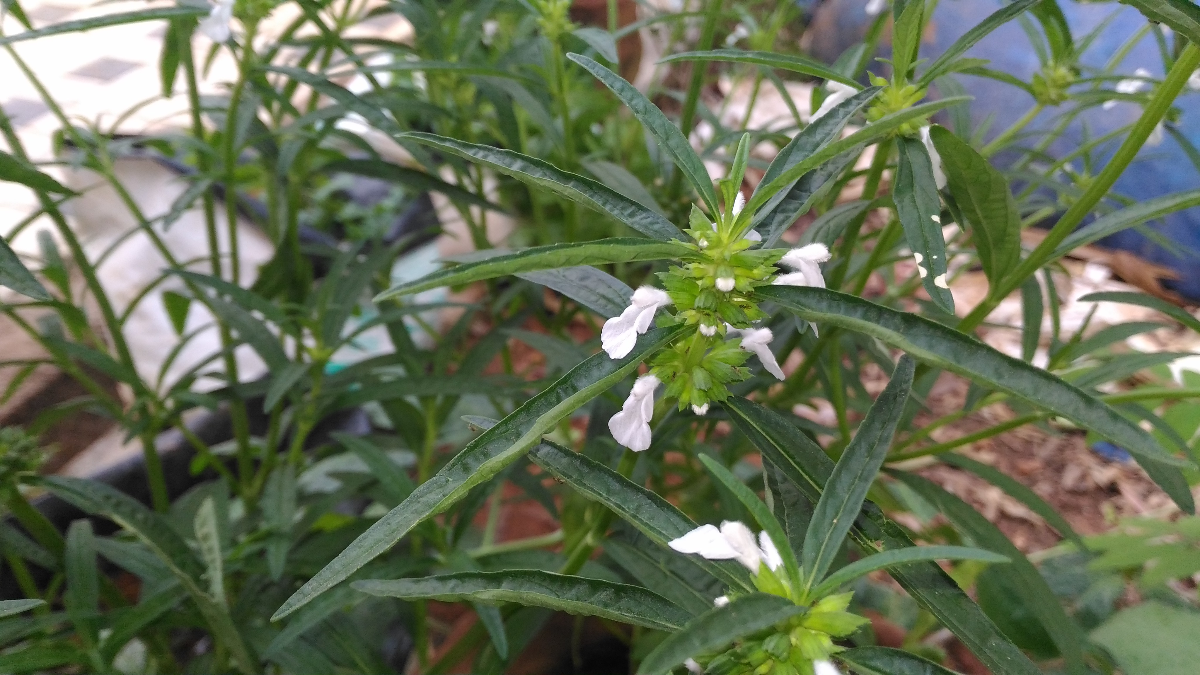 Leucas aspera _Thumpa_plant with flowers